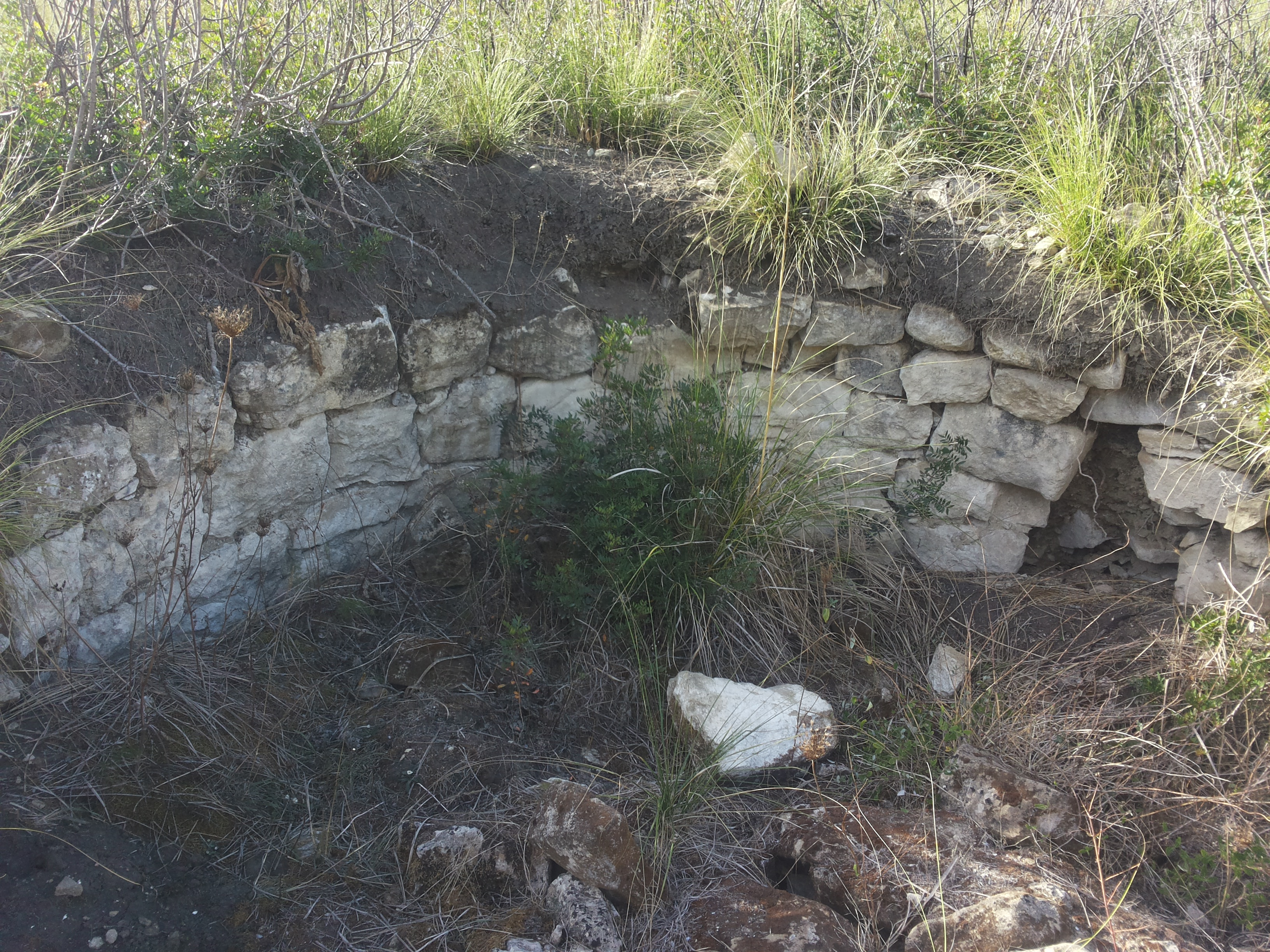 opera muraria